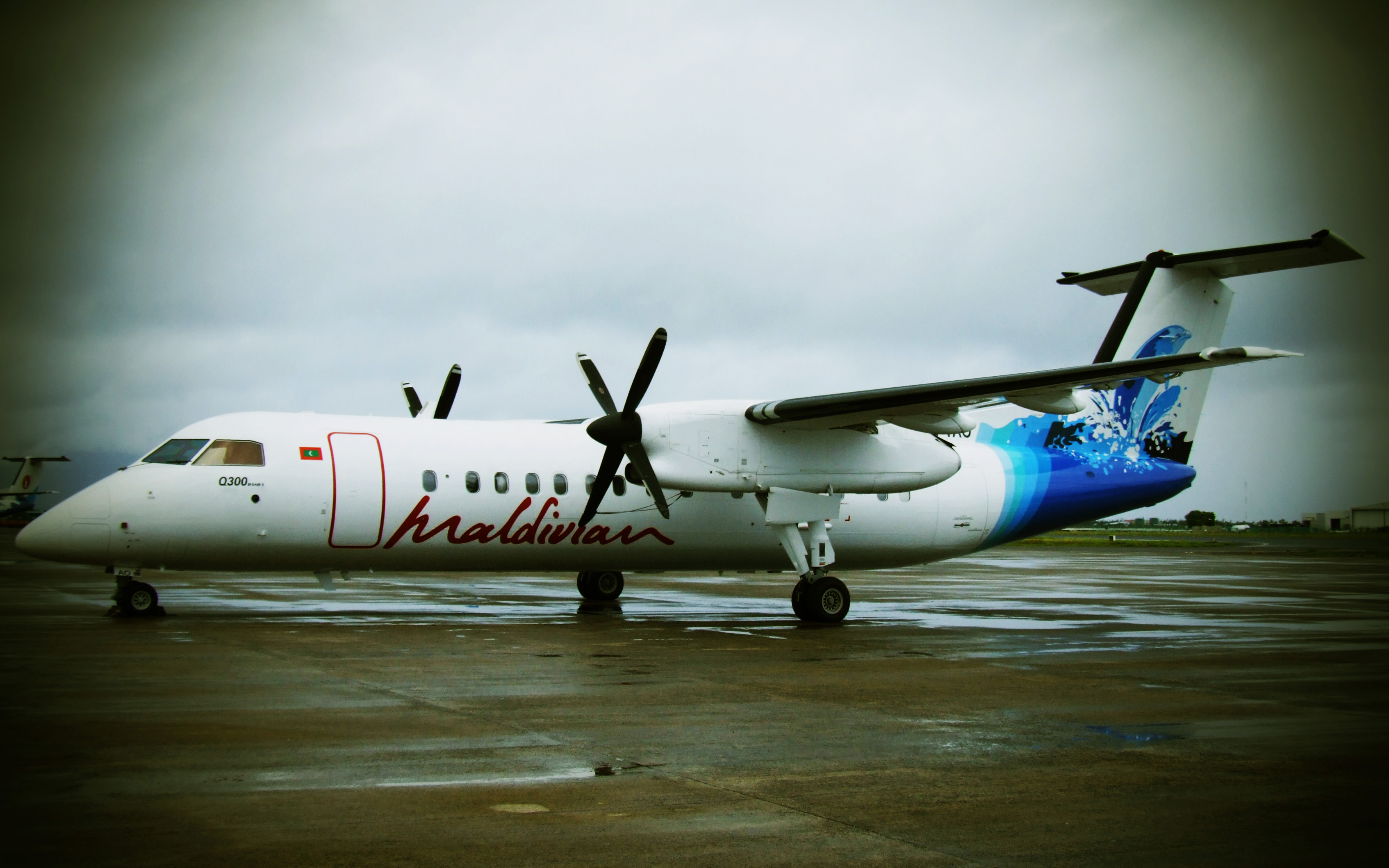 Welcome to Maldivian - Flying Made Simple The Dash 8 Q300 aircraft is a 50 seater aircraft manufactured by Bombardier, Canada. Male', International Airport, Maldives View on BLACK